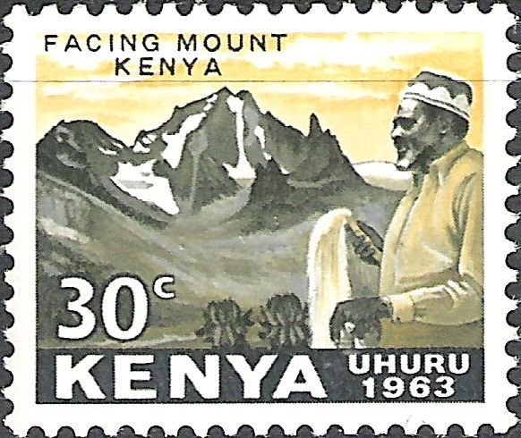 Stamp of Kenya depicting Jomo Kenyata facing Mount Kenya. Cost 30 Kenyan cents.